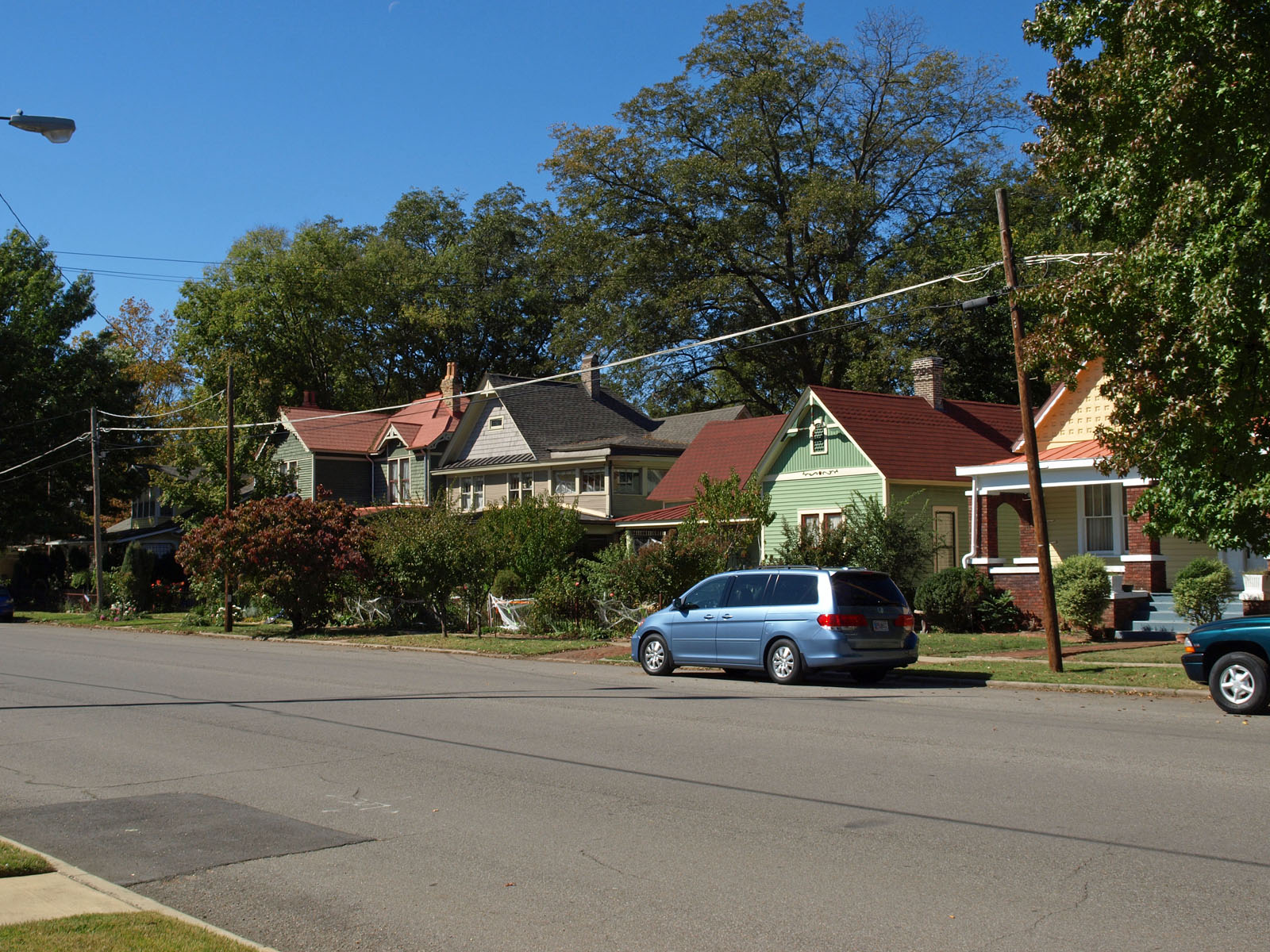 The 700 block of Holmes Avenue in Huntsville, Alabama, part of the Old Town Village Historic District.